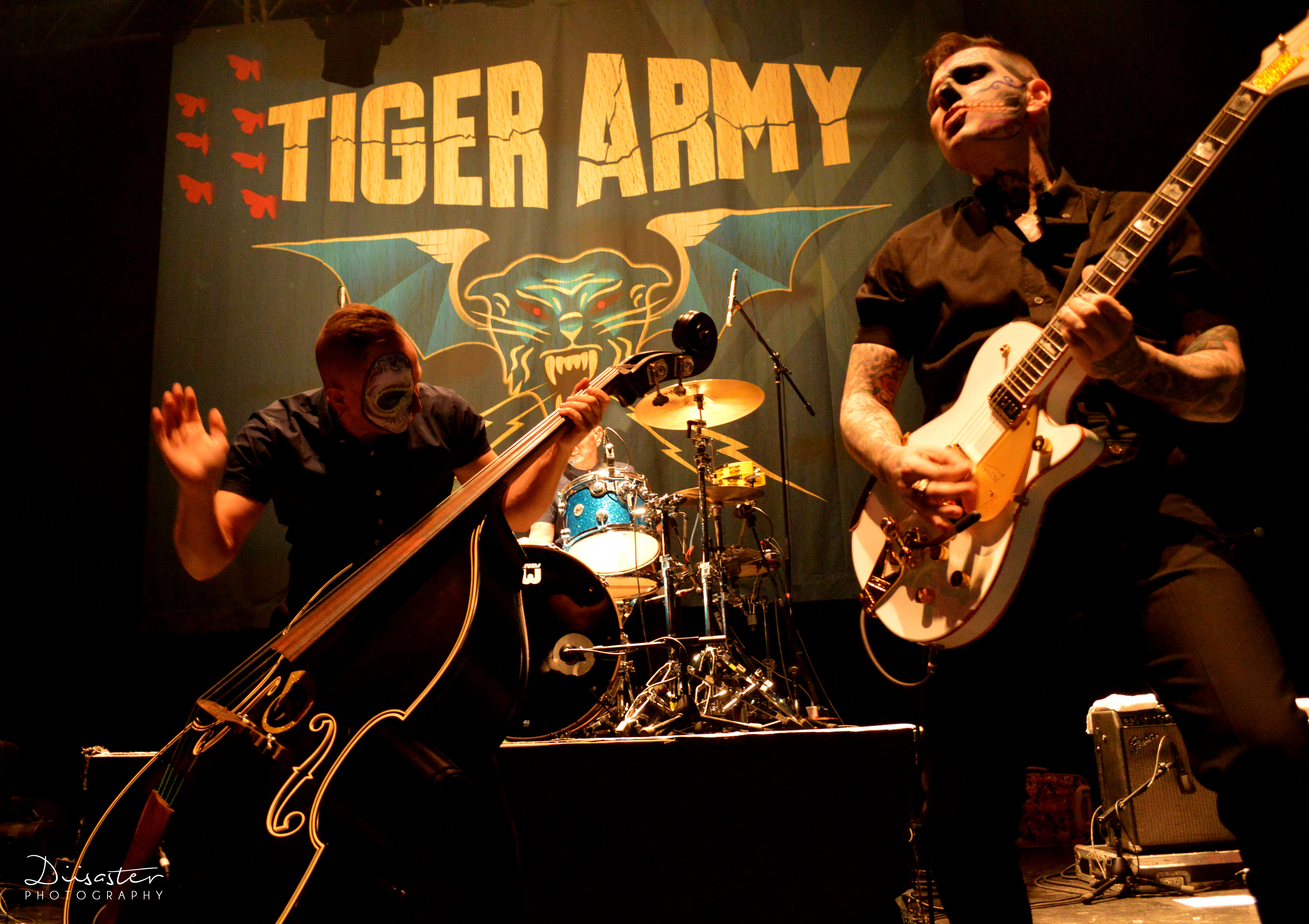 En esta foto podemos ver a "Stijepovic" en su presentación con la banda de psychobilly "Tiger Army" en la ya conocida sala de conciertos "El Plaza Condesa" de la Cdmx en 2016. Fotografía : Fatima Gonzalez Labrador